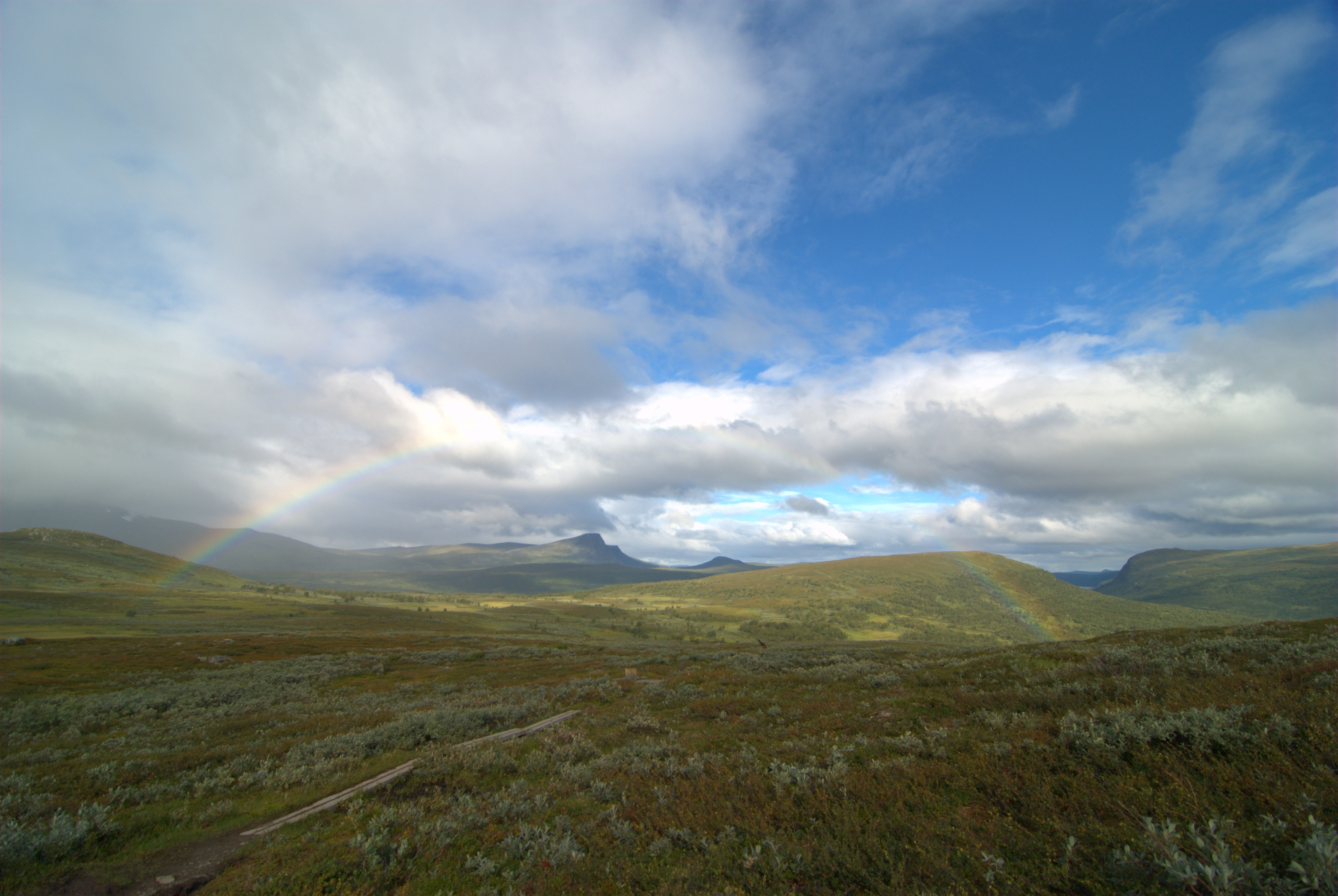 Rainbow over the heaths of Vindelfjällen nature reserve. Taken along the Kungsleden between Serve and Tärnasjön.